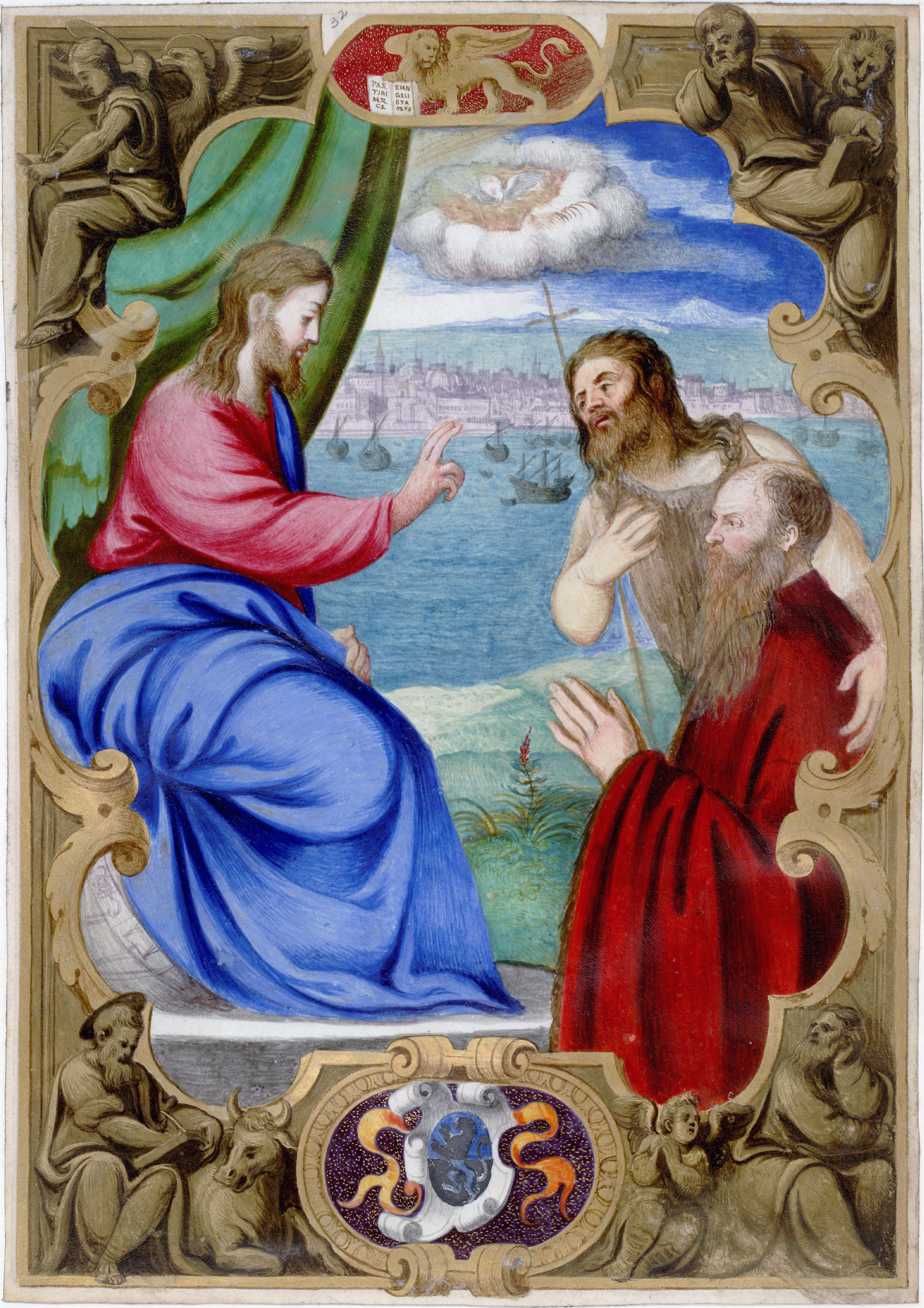 Francesco Pisani presented by John the Baptist to Christ who blesses him. In the background, Piazzetta San Marco. 230 x 162 mm 16th century